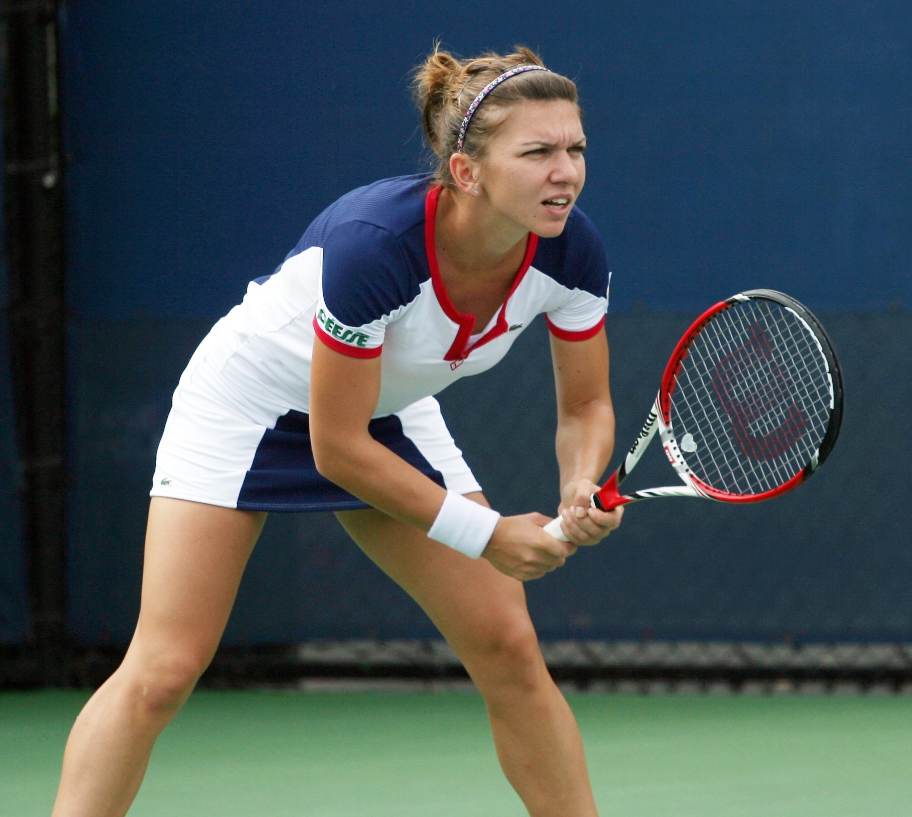 Friday, August 30